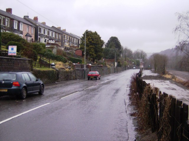 Older housing at Newbridge